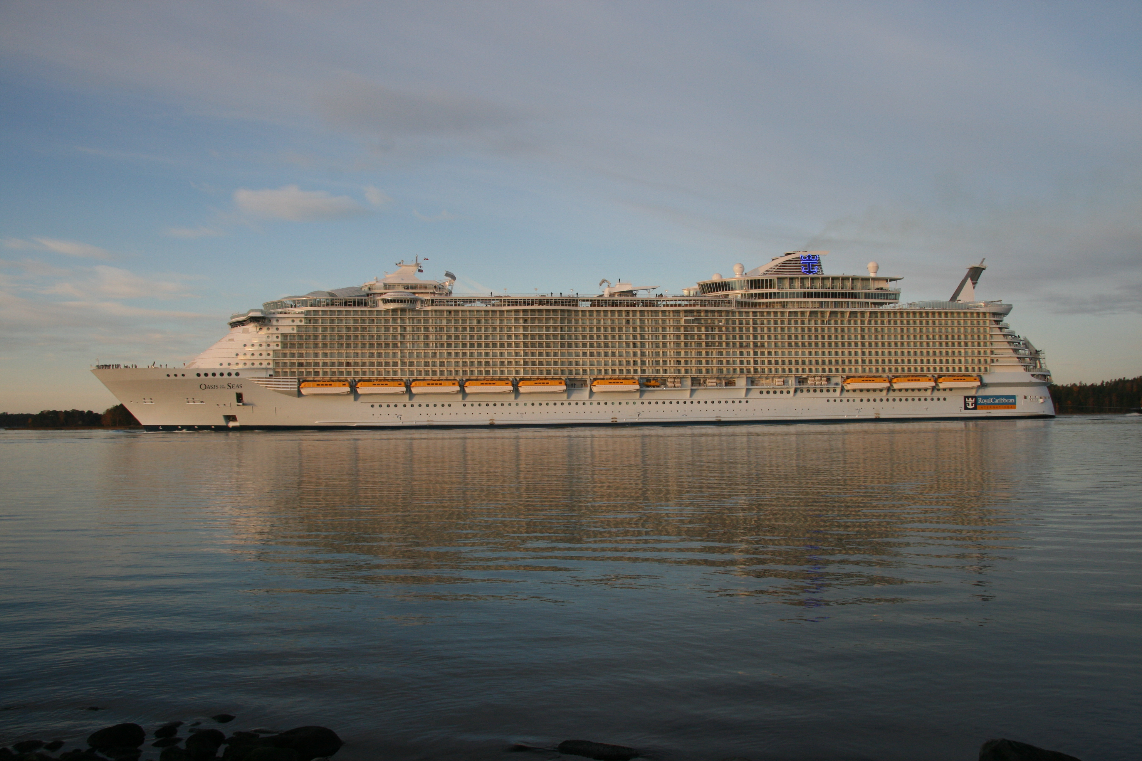 Oasis of the seas leaving STX shipyard, Turku, Finland. Ship is near Ruissalo.